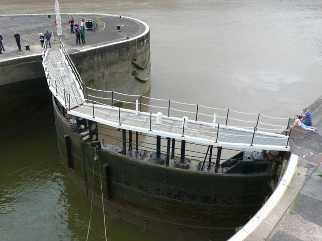 Lower Lock Gate, Howard Lock, Floating Harbour, Bristol This lower lock gate separates the Floating Harbour from the tidal River Avon. The Avon is on the right the floating harbour on the left. The floating harbour was built in 1809 to ensure that boats loading and unloading in Bristol's harbour could remain floating at all times. Previously the huge tidal range of the river at this point meant that boats were beached on the mud at low tide. The floating harbour occupies the section of the river Avon that used to flow through the centre of the city, from Temple Meads station down to this point. Because of this lock it now has a constant water level. The tidal Avon now flows through a new channel called New Cut which runs from the Howard Lock upstream to Temple Meads. The water level on the tidal river can vary by as much as 40ft. The New Cut is in the left rear of this image. A feeder canal was cut from Temple Meads upstream to Netham Lock on the Avon to supply the floating harbour with water. Most of the boats using the lock to pass from the river to the floating harbour are now small leisure craft but the lock itself is huge and was designed to take large sailing ships. A problem soon arose after construction from the silting up of the floating harbour which is also fed by the River Frome which also flows through the city centre but is contained in a culvert and is not visible below the bridge at Wade St. Brunel designed the Underfall sluices which were designed to produce a scouring action to remove silt from the harbour into the New Cut of the Avon. This was partially successful but the harbour still had to be dredged regularly and the dredging continues to this day.